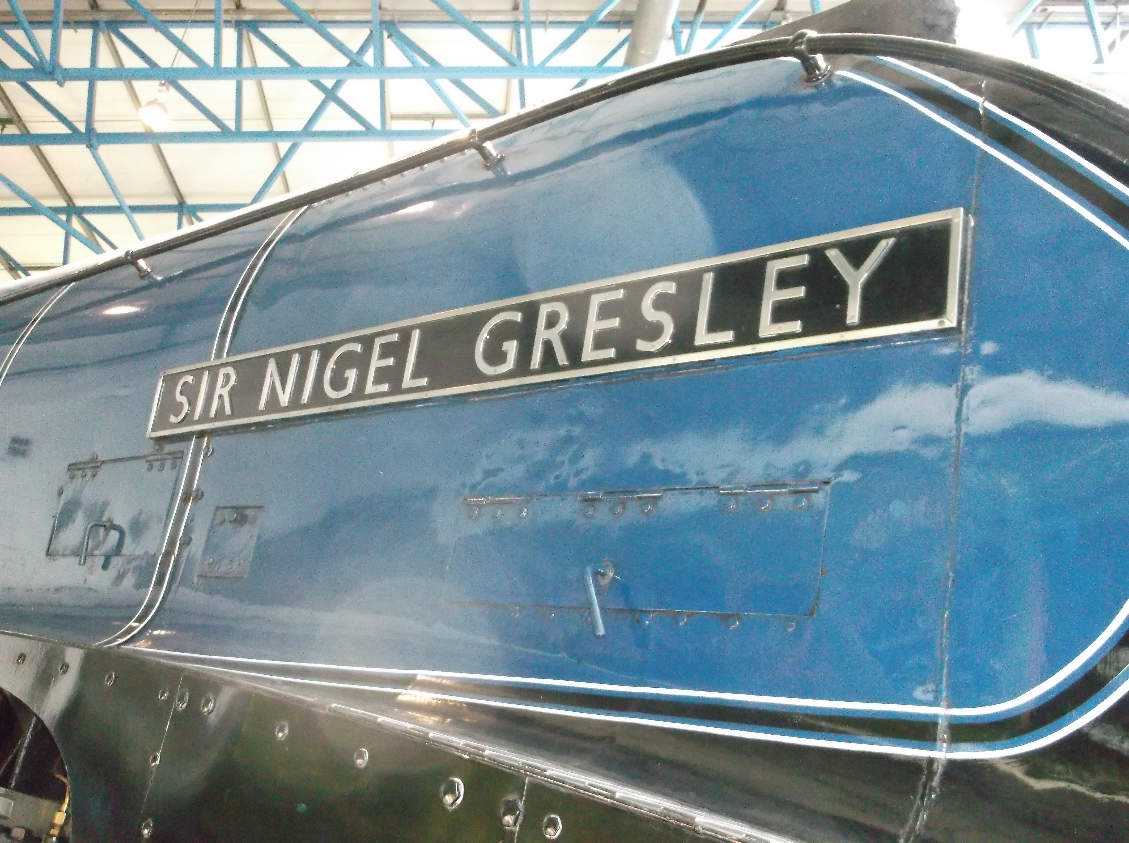 Name plate on Locomotive Sir Nigel Gresley at the National Railway Museum, York.